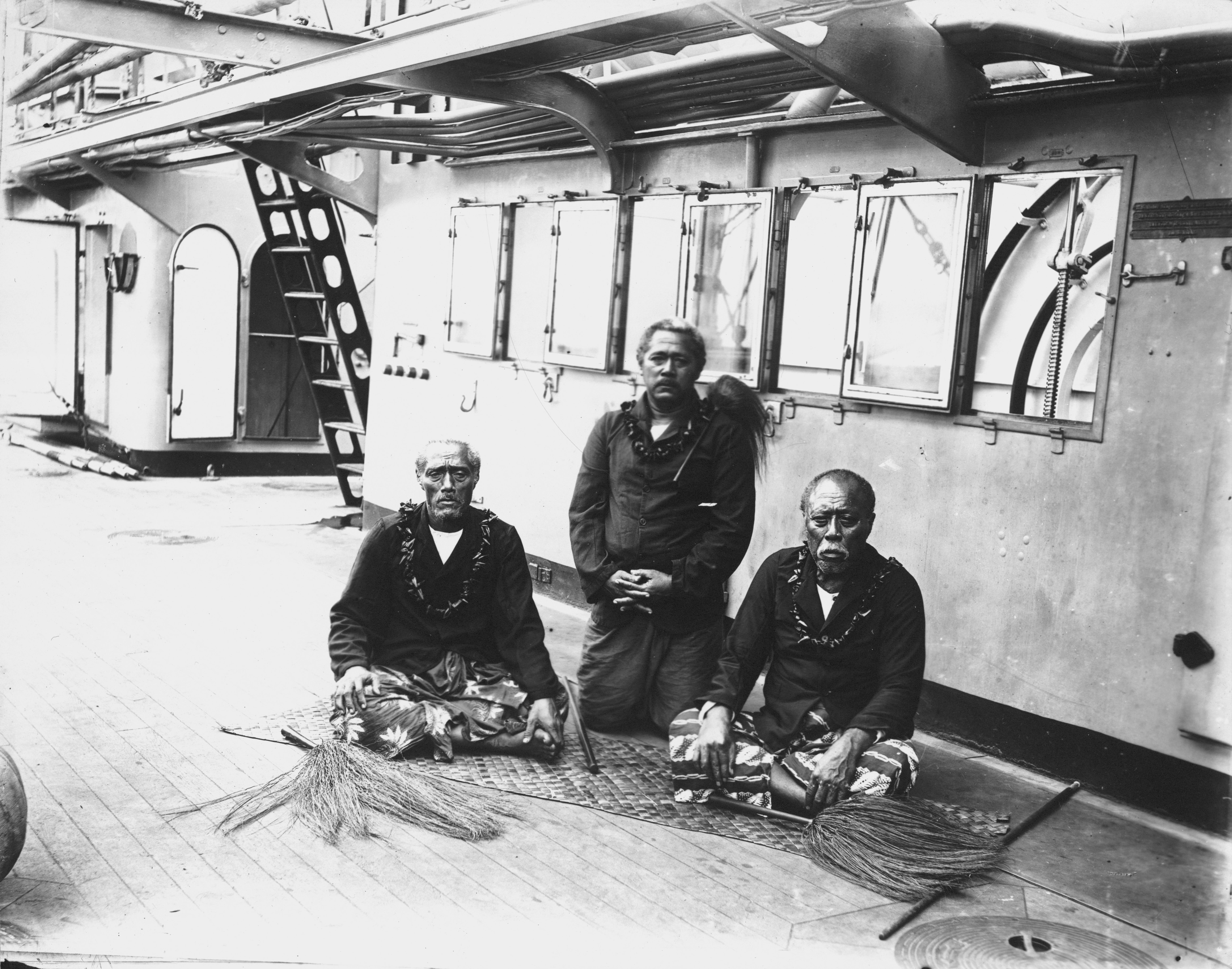 Lauati (aka Lauaki) Namulau'ulu Mamoe (left) and two chiefs aboard German warship taking them to exile in Saipan, 1909. Gagana Samoa: Le ata o Lauati (aka Lauaki) Namulau'ulu Mamoe (itu tauagavale) ma matai i luga o le va'a taua Siamani, i le momoliga o latou e fa'apagota i Marianas, 1909